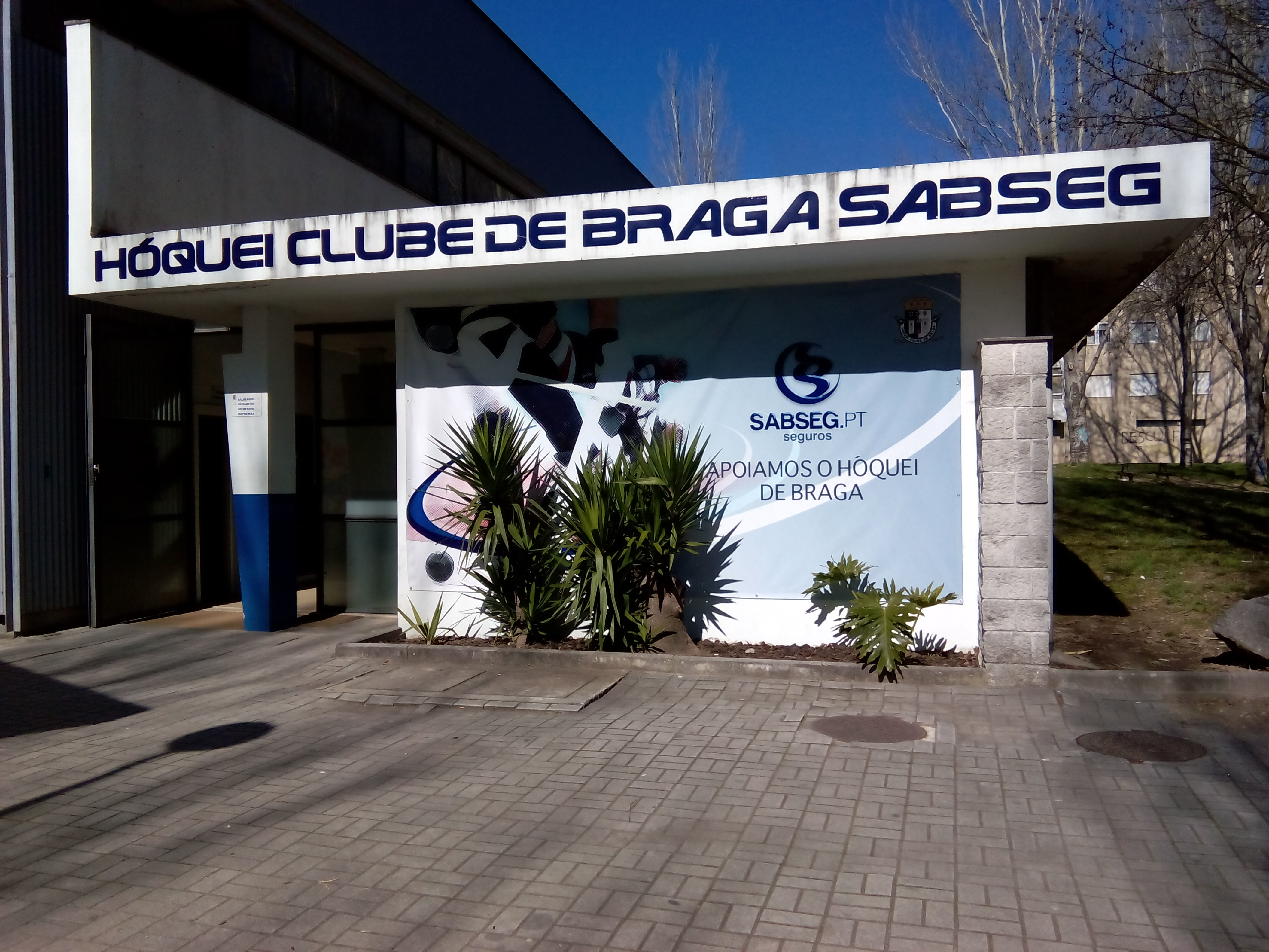 Entrance of Pavilhão das Goladas in Braga, Portugal.